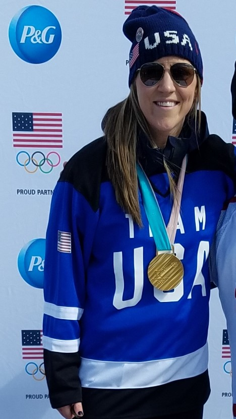 Meghan Duggan with her 2018 Olympic gold medal at an appearance in Quincy, MA 3-11-28